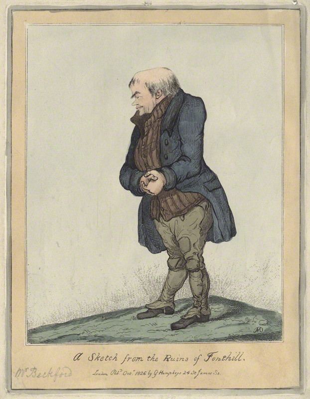 Hand-coloured engraving of John Farquhar (1751–1826), Scottish millionaire.